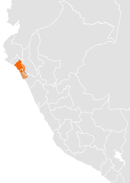 Approximate extension of Mochica language before substitution by quechua and spanish languages. Source: Torero, Alfredo (1984). «El comercio lejano y la difusión del quechua. El caso del Ecuador». Andina: pp. 367-402.